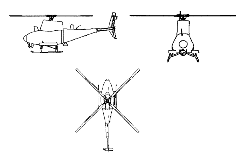 RQ-8B Fire Scout (drawing)